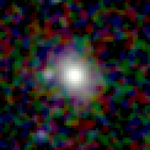 2MASS image of NGC 700.